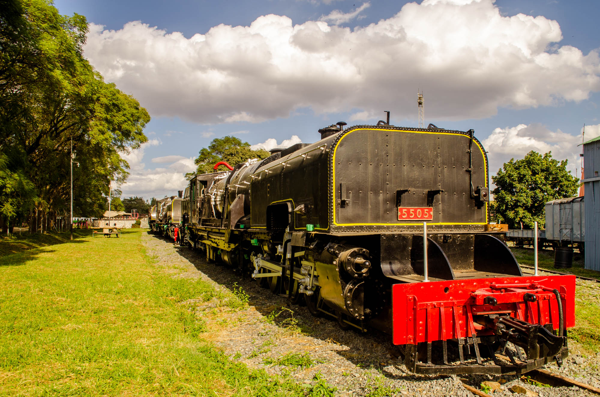 The train entered service between 1939 and 1941, and were later operated by the KUR's successor, the East African Railways (EAR) from 1948 to 1977 This is an image with the theme "Africa on the Move or Transport" from: Kenya